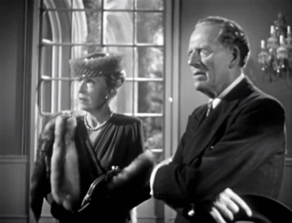 Josephine Whittell & James Kirkwood Sr. in That Brennan Girl - cropped screenshot